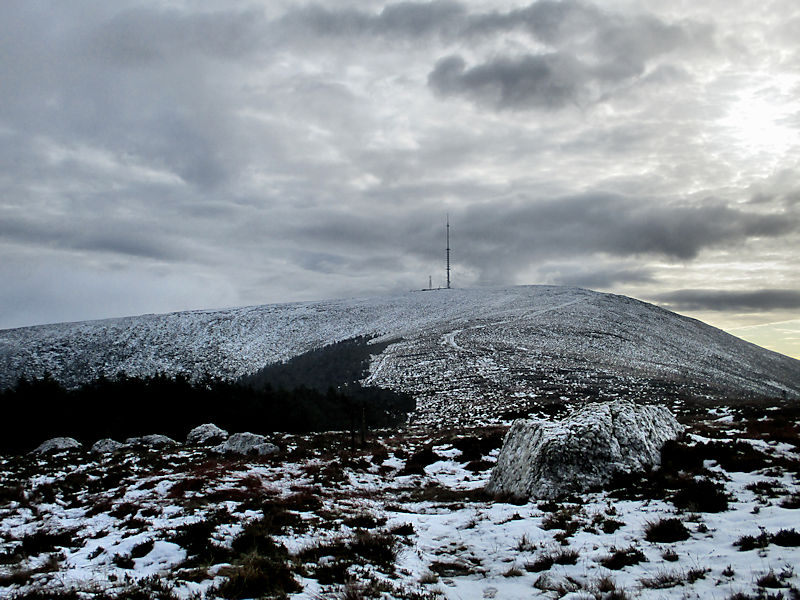 Snow atop Mt. Leinster by Kevin Higgins